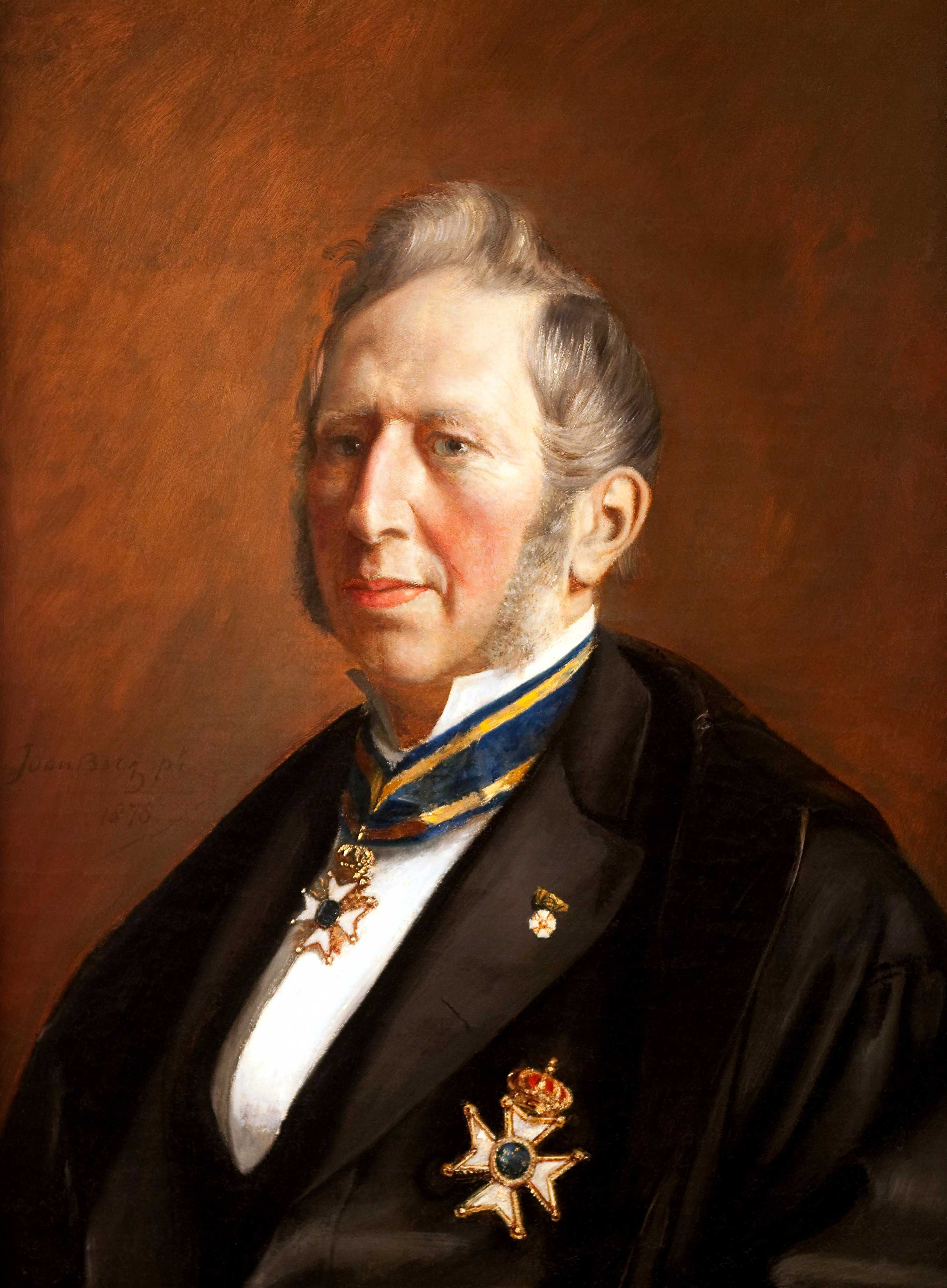 Johan de Wal (1816-1892) Dutch criminal lawyer and legal historian